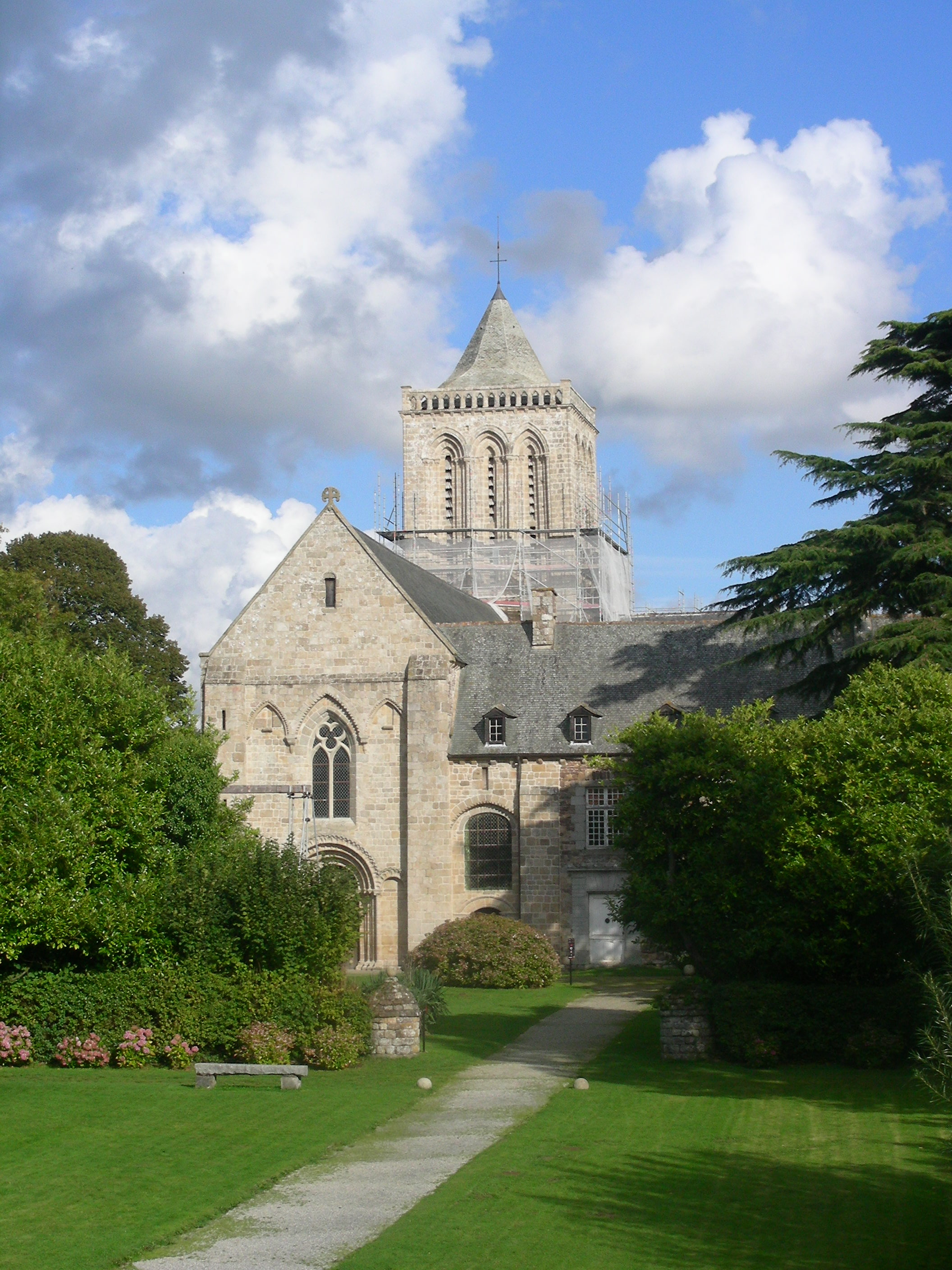 Abbey of Saínte Trinité de La Lucerne, the Church